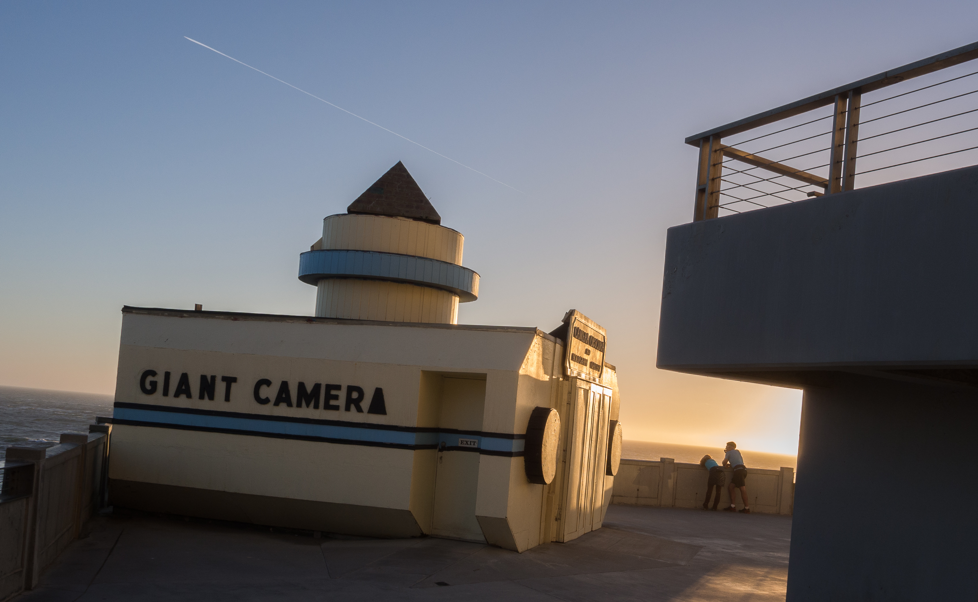 The original camera technology.